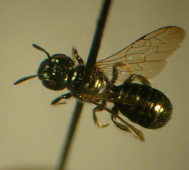 Ceratina acantha female